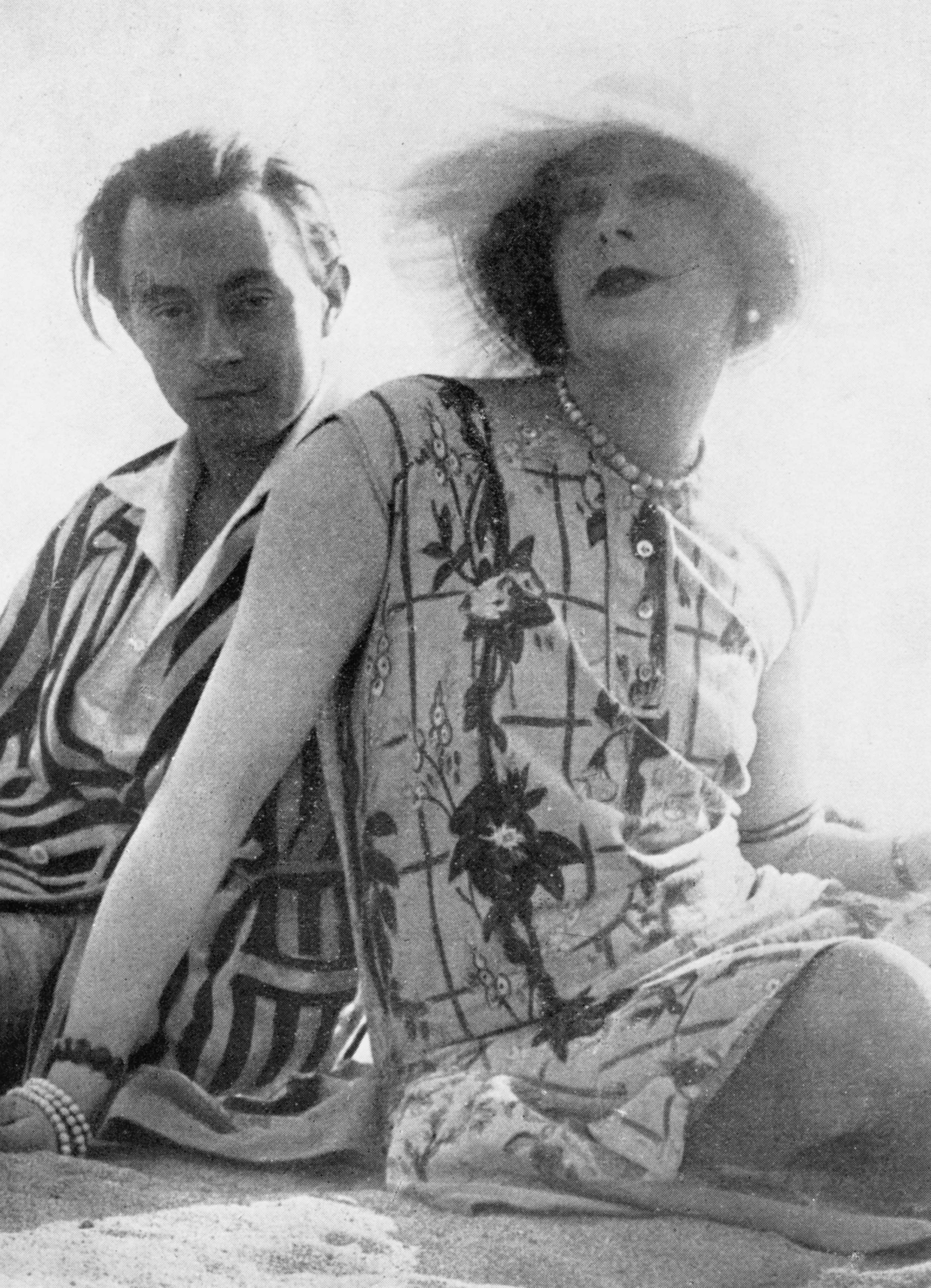 from N. Hoyer, ed., Man into Woman. An Authentic Record of a Change of Sex. The true story of the miraculous transformation of the Danish painter Einar Wegener (Andreas Sparre). London: Jarrolds, 1933. Photograph: Lili and her friend Claude, Beaugency, 1928 (before the operation). opp. p. 64